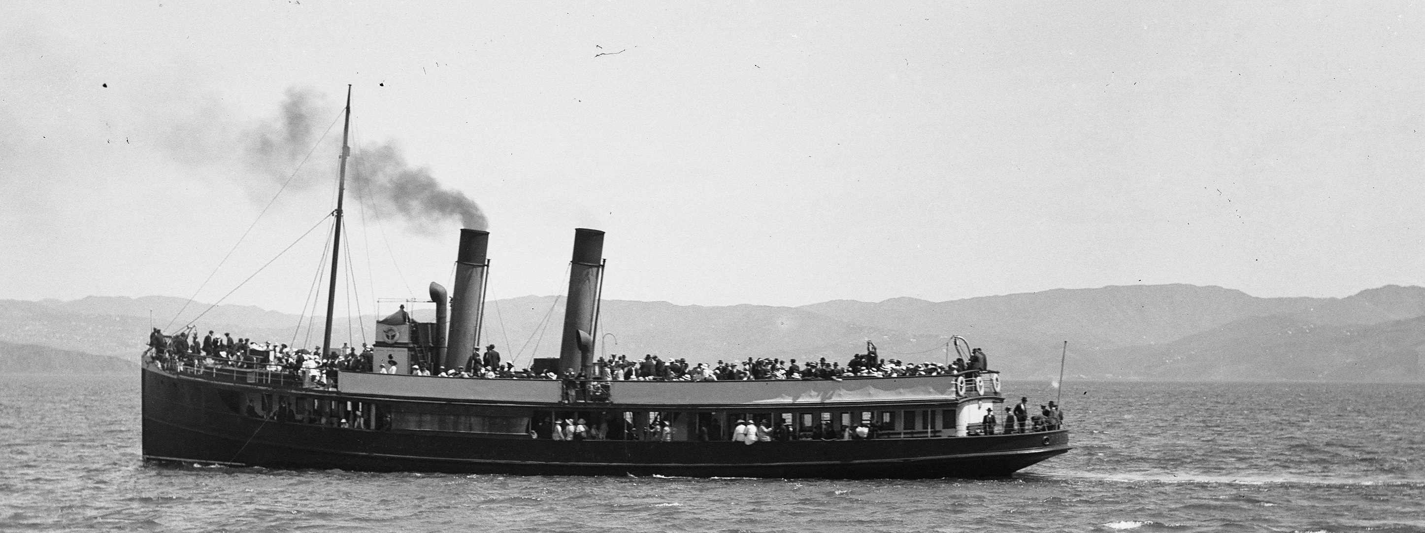 S S Duchess crossing Day's Bay, Wellington, New Zealand circa 1910